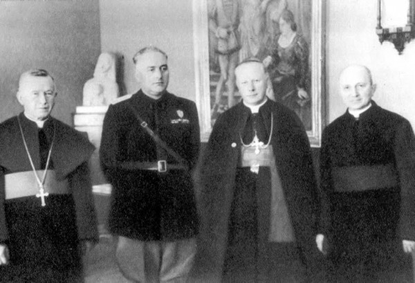 From left: Ignacij Nadrah, Emilio Grazioli, Gregorij Rožman and Franc Kimovec